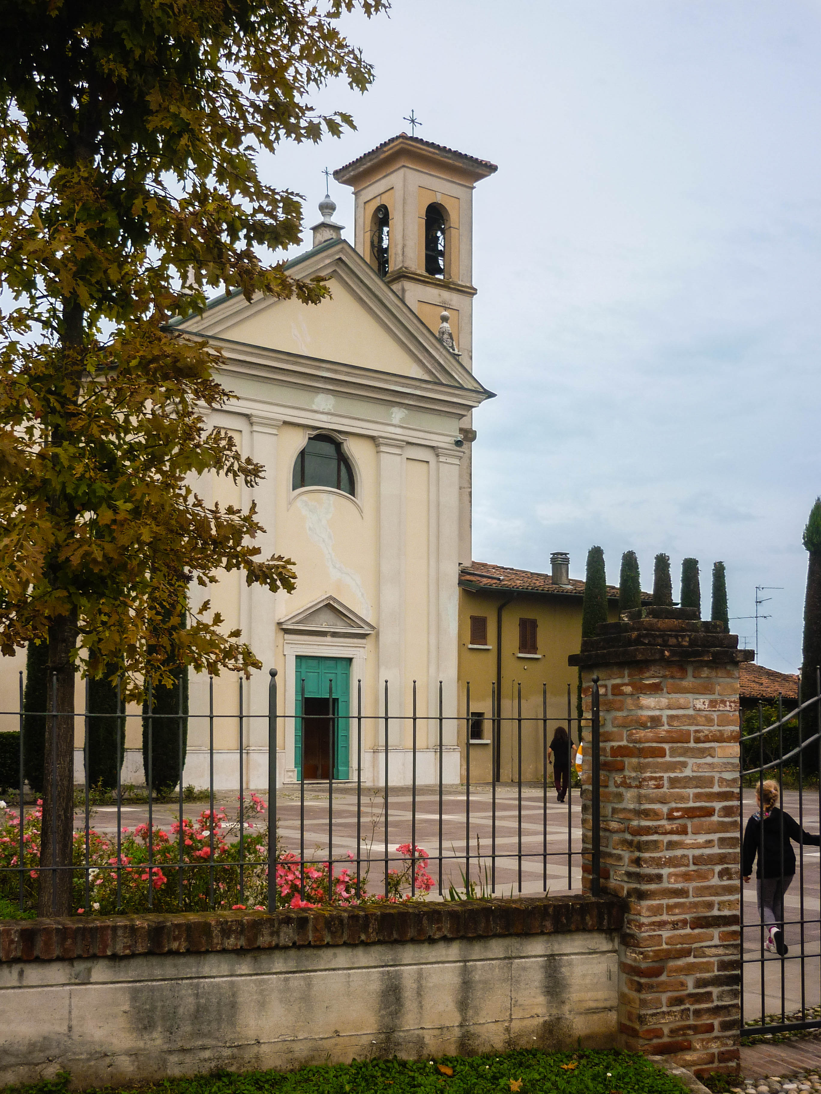 Madonnina del Boschetto Onzato